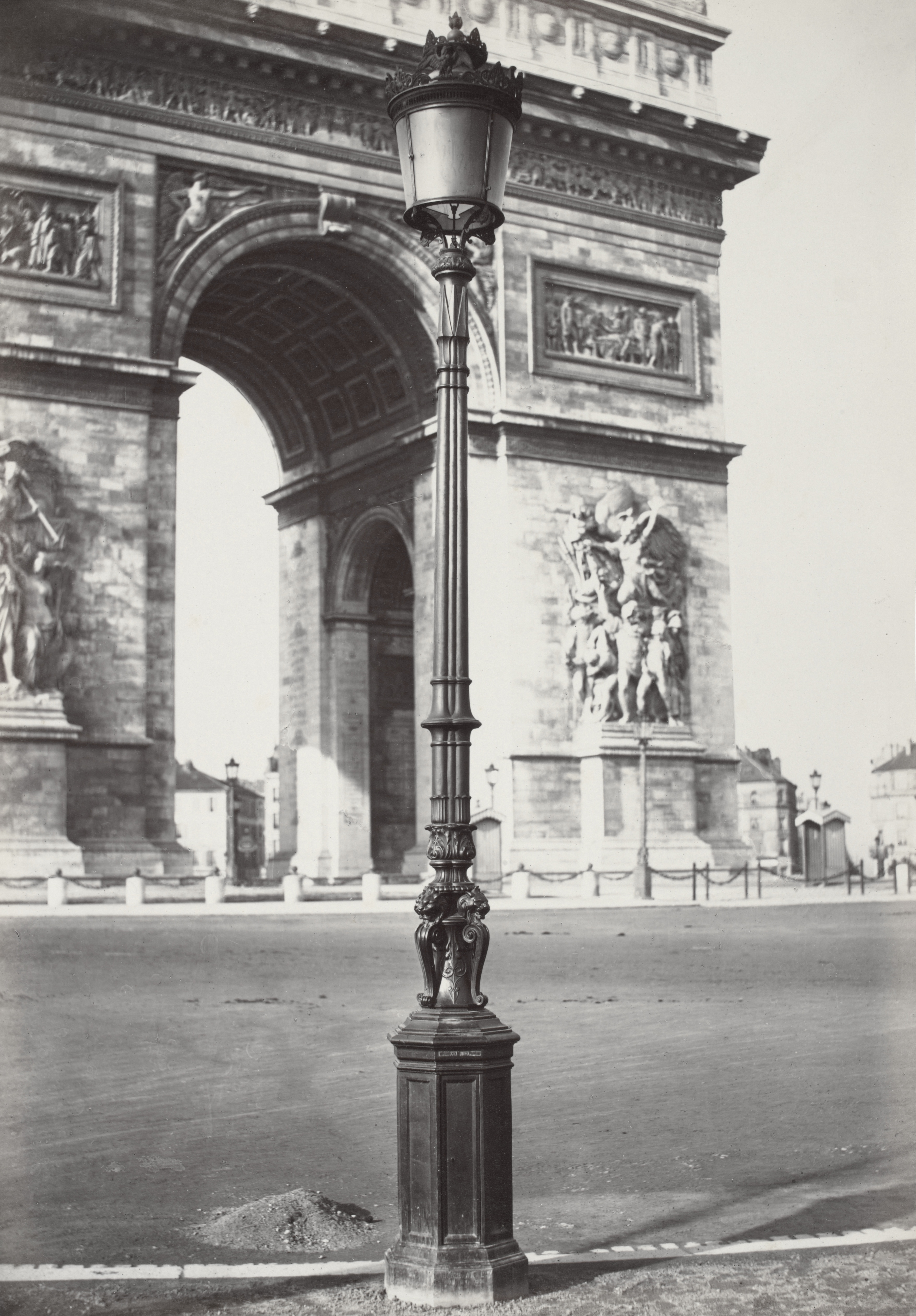 Lamp post on curb, against backdrop of the Arc de Triomphe, Paris, France.